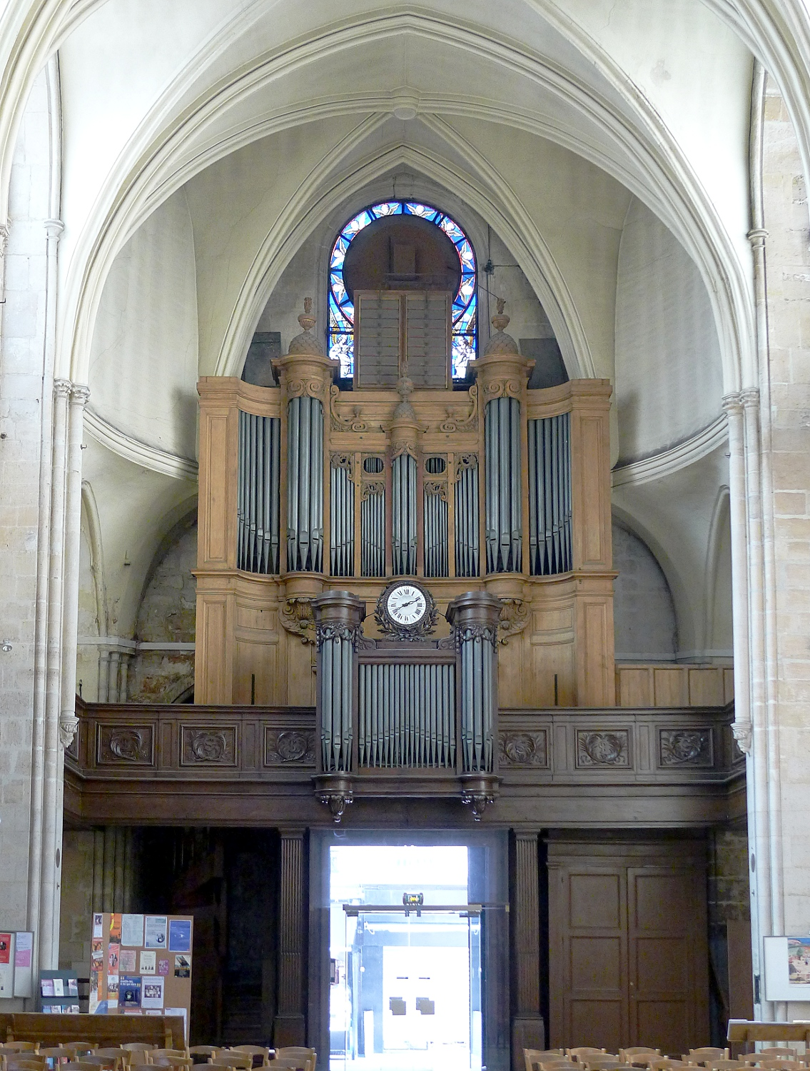 Saint-Leu-Saint-Gilles church - Paris